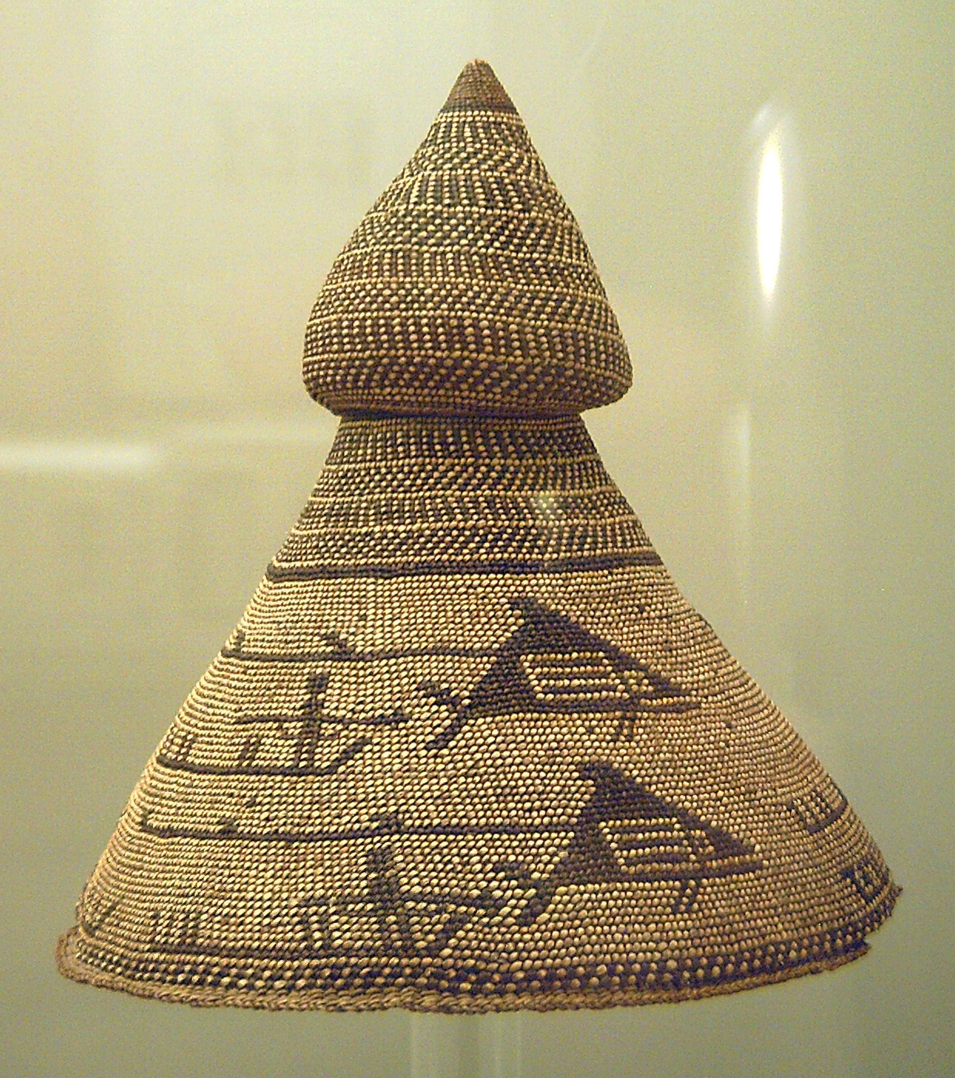 A hat of a chief whaler.